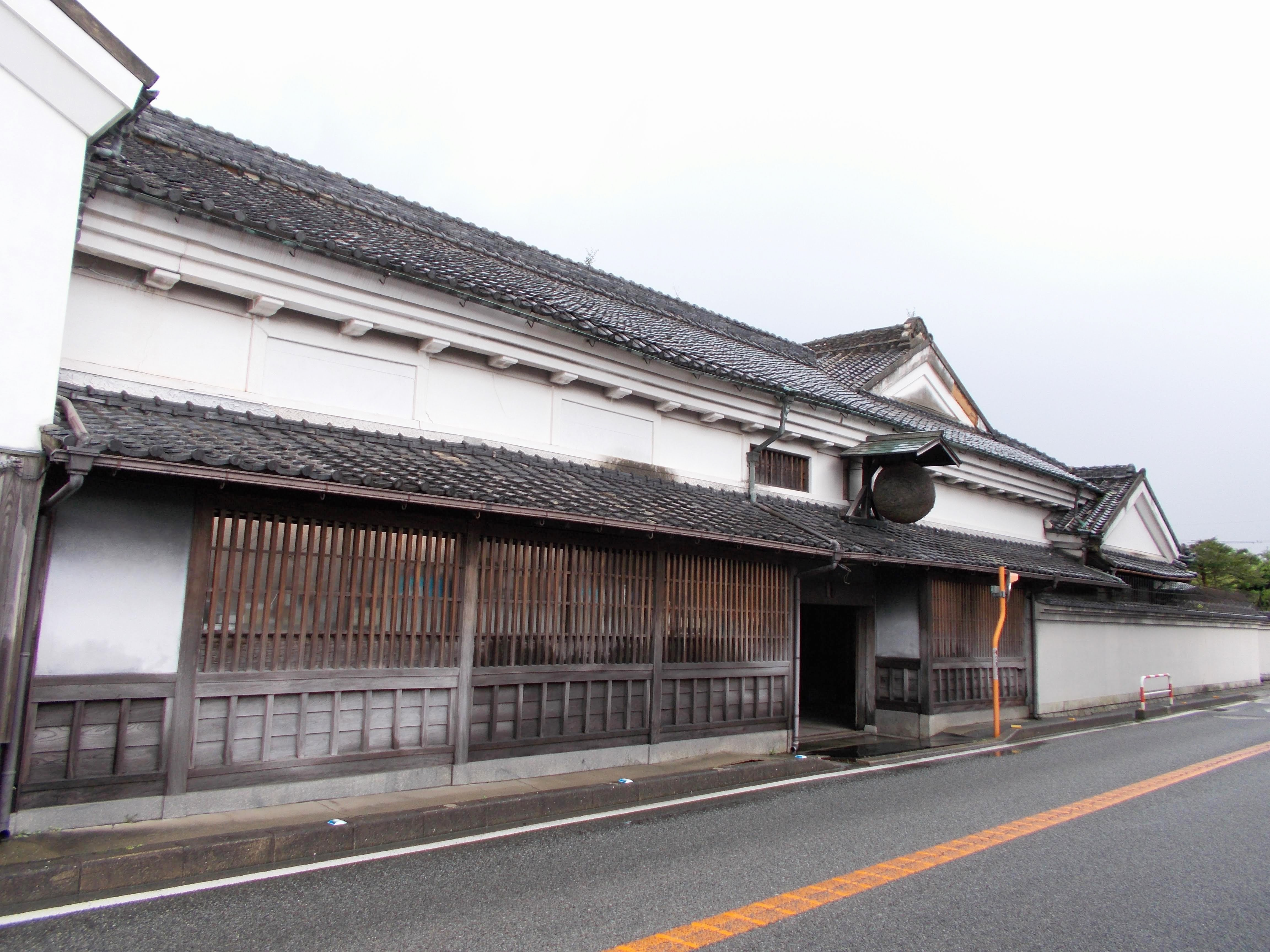 The Kobayashi Sake Brewing company, Umi, Fukuoka, Japan. The brand name of sake wine is widely known as Bandai (萬代) in Japan.